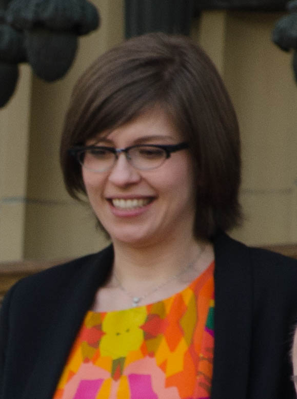 Jessica Littlewood at the 2015 Alberta Premier/Cabinet swearing-in ceremony, by Connor Mah.